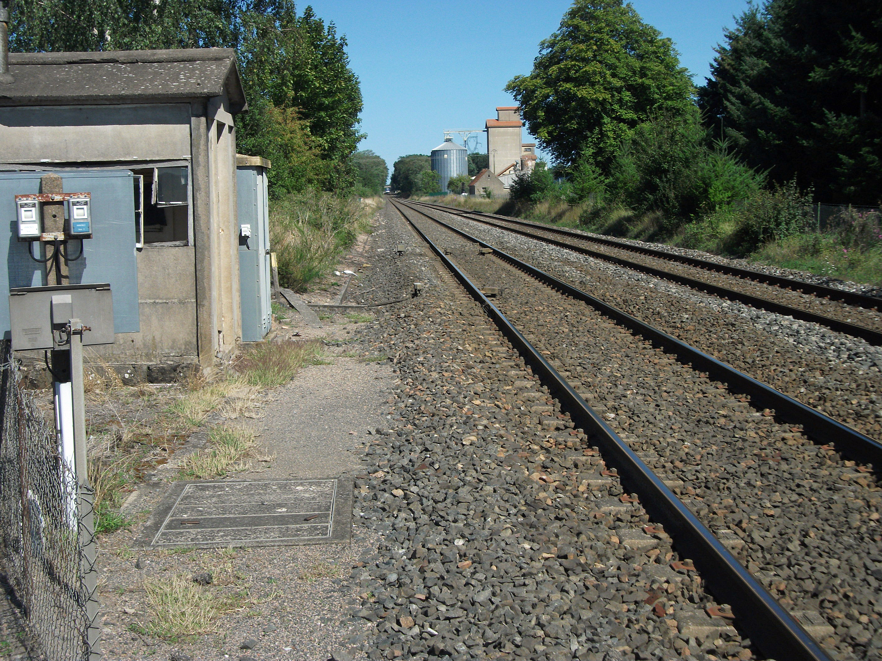 Railway line (Moret–Lyon) in Magnet, Allier, 27 seconds after passage of a train [8878]